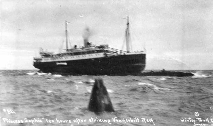 Princess Sophia on Vanderbilt Reef, 24 October 1918 at 11:00 am. This view is looking NE towards the coast of Alaska, which can be dimly seen on the right. The warning buoy (day mark only) at Vanderbilt Reef is clearly shown. This is photographer's image number 52. A life boat is being lowered over the side. This appeared to rescue ships initially to be an effort to evacuate the ship, however the boat was being lowered to inspect the damage to the hull of the stranded vessel. Rescue ships may have been as close to the vessel as this photograph appears to show, as one was reported to have tied off to the buoy show in the foreground of this image. The buoy shows presumably a black starboard buoy from the time before the modern lateral system (starboard: green) was introduced.